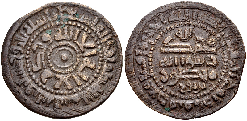 Coin of Mansur I, and Samanid Emir.